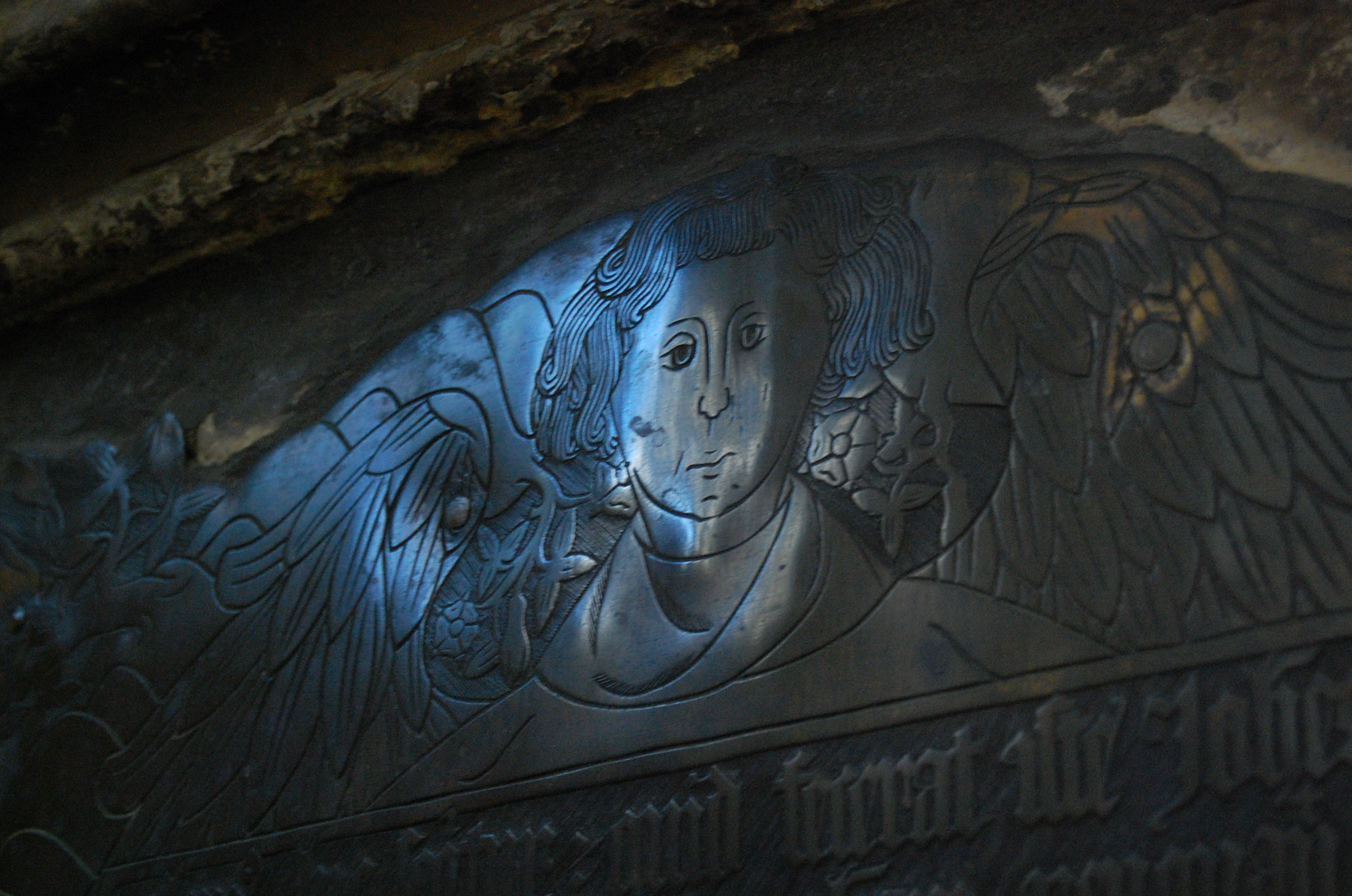 Brass detail on tomb of Sir John Fogge. Sir John Fogge (1425-1490) represented the county in parliament 1478, was sheriff at various times and was treasurer to the royal household. He married twice, both wives called Alice. He renovated the church and built the tower at his own cost.